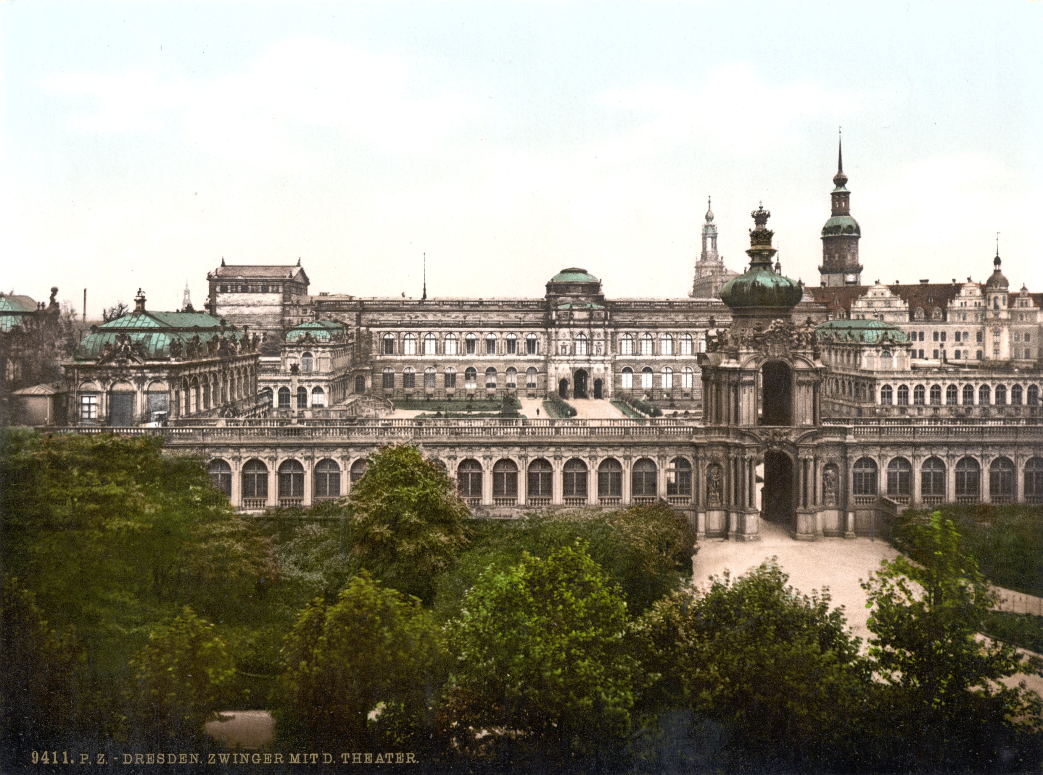 Dresden (Saxony, Germany) - Zwinger: Kronentor